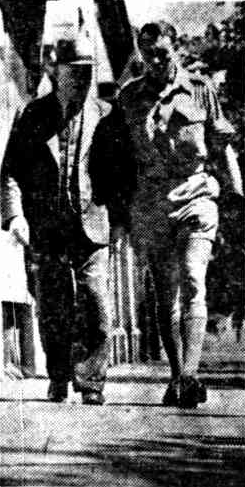 Port Adelaide Football Club secretary Charles Hayter in discussion with Haydn Bunton in 1945 on North Terrace.